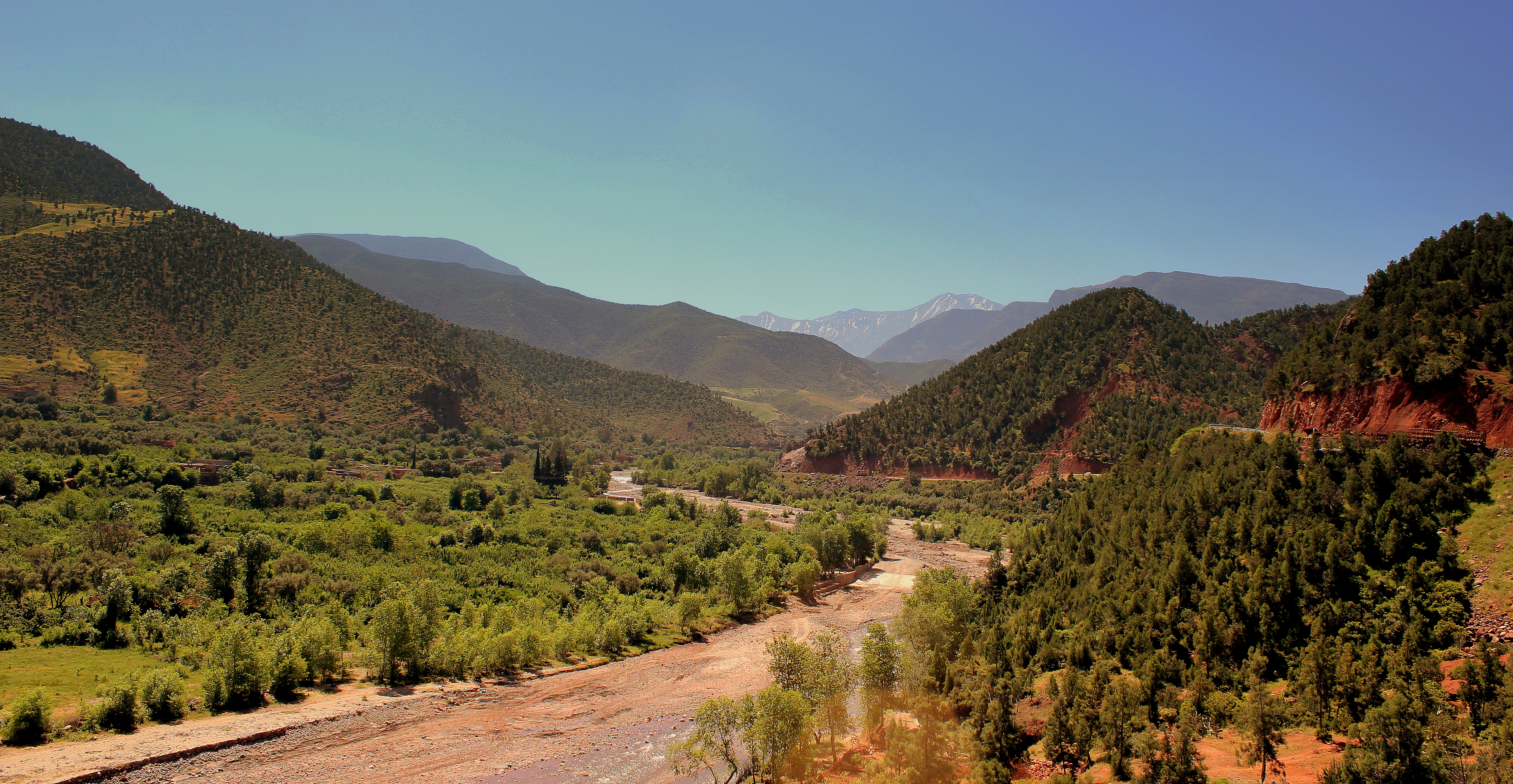 ATLAS MOUNTAINS MOROCCO APRIL 2013